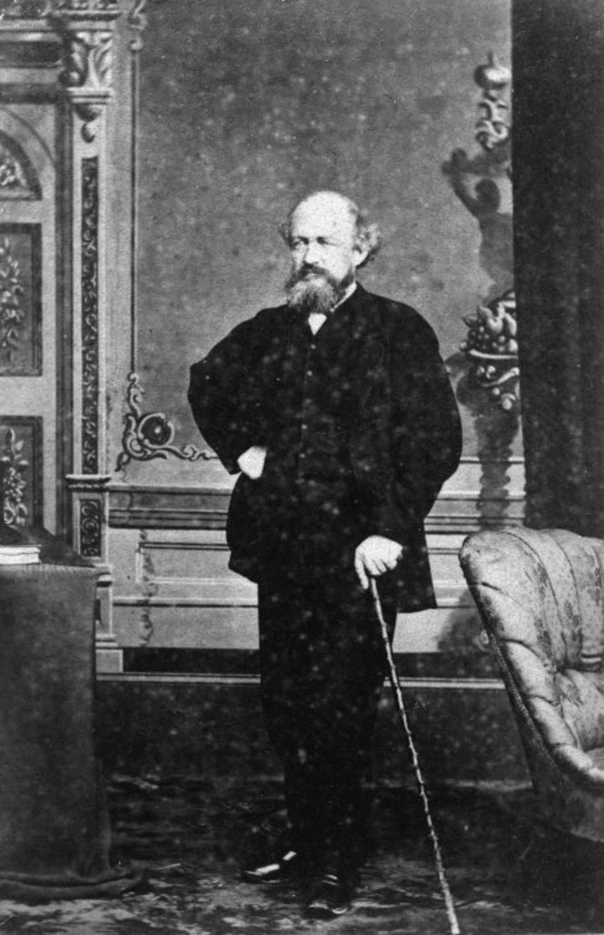 Thomas Brunner - Photograph taken by William Henry Davis, 1837-1875. New Zealand Railways :Photographs. Ref: 1/2-023745-G. Alexander Turnbull Library, Wellington, New Zealand.